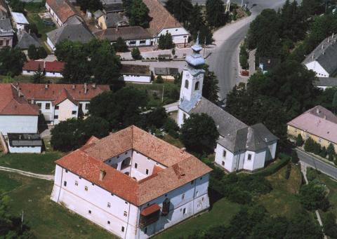 Ozora - Castle, Hungary, aerialphotography